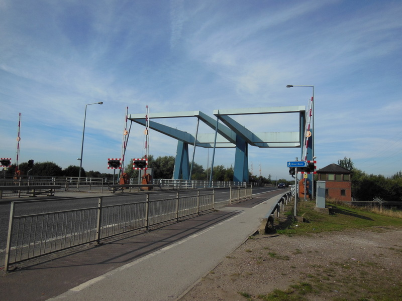 The twin bridges on Raich Carter Way, Hull, East Riding of Yorkshire, England.